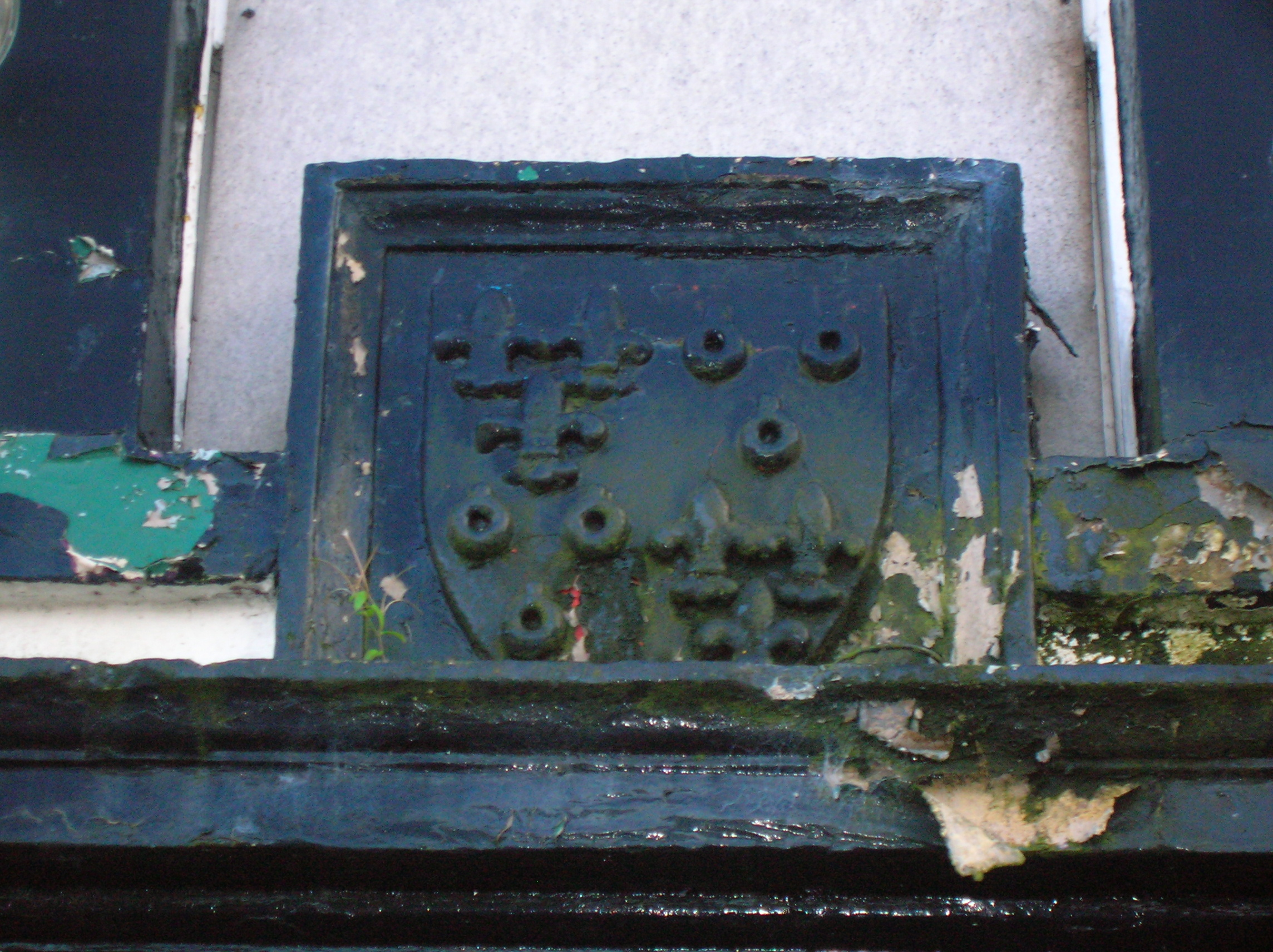 Montgomerie coat of arms above entrance of the Cross Keys, Montgomery Street, Eaglesham. Taken from Polnoon Castle.